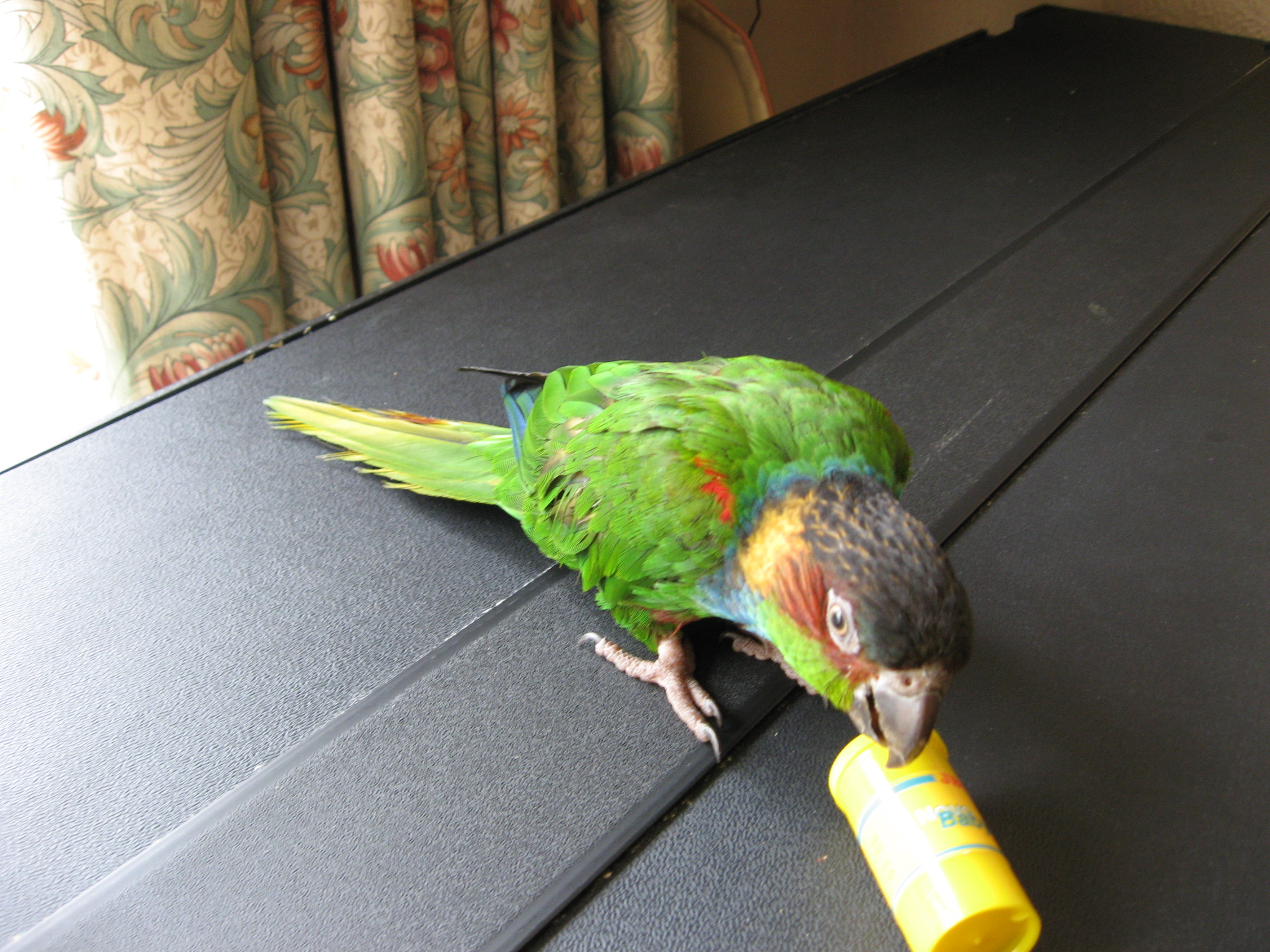 Blue-chested Parakeet (Pyrrhura cruentata) also known as Blue-throated Parakeet or Blue-throated Conure. Pet with yellow toy.